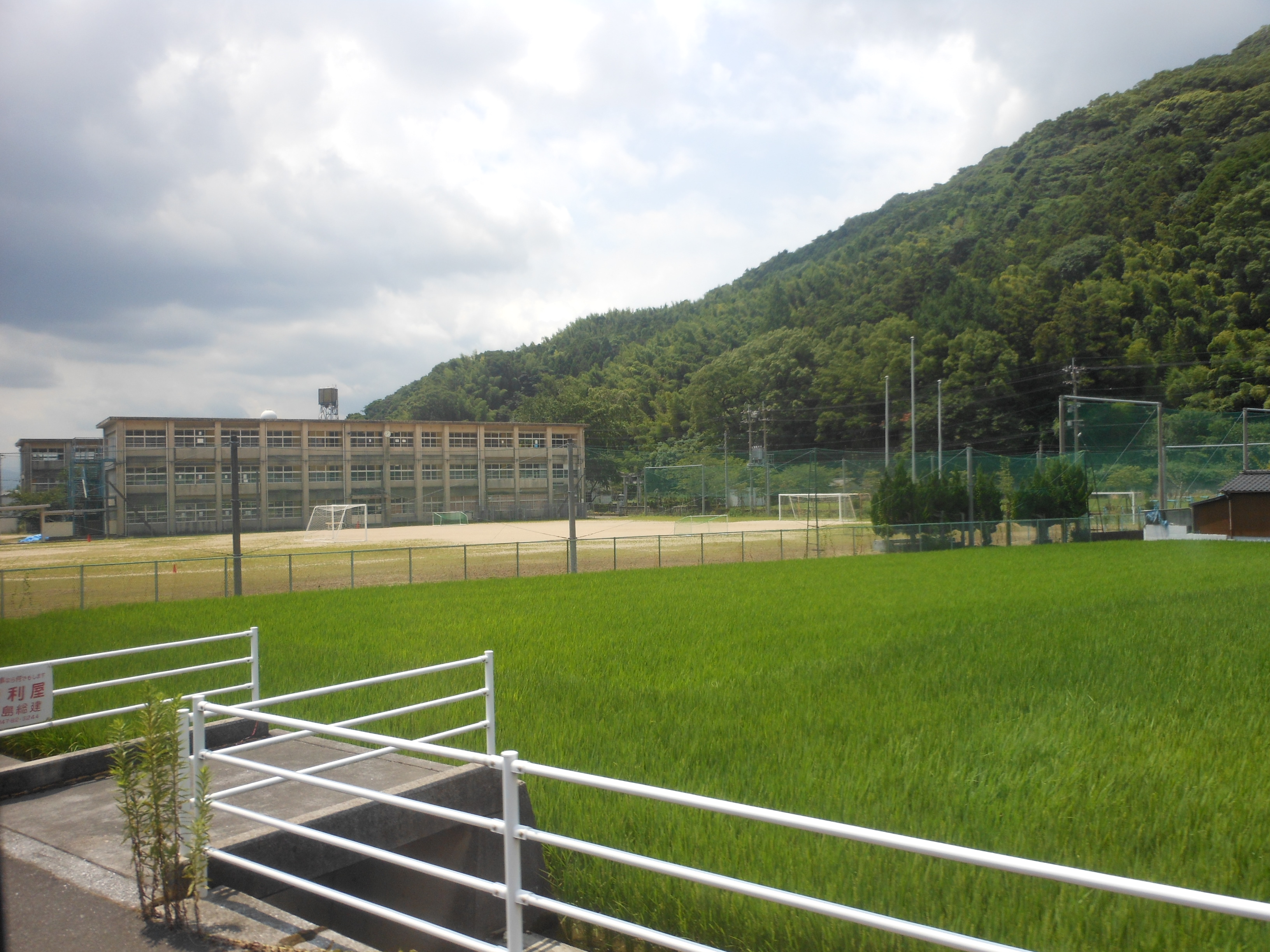 This is the Kawara town Kawara junior high school in Fukuoka, Japan.